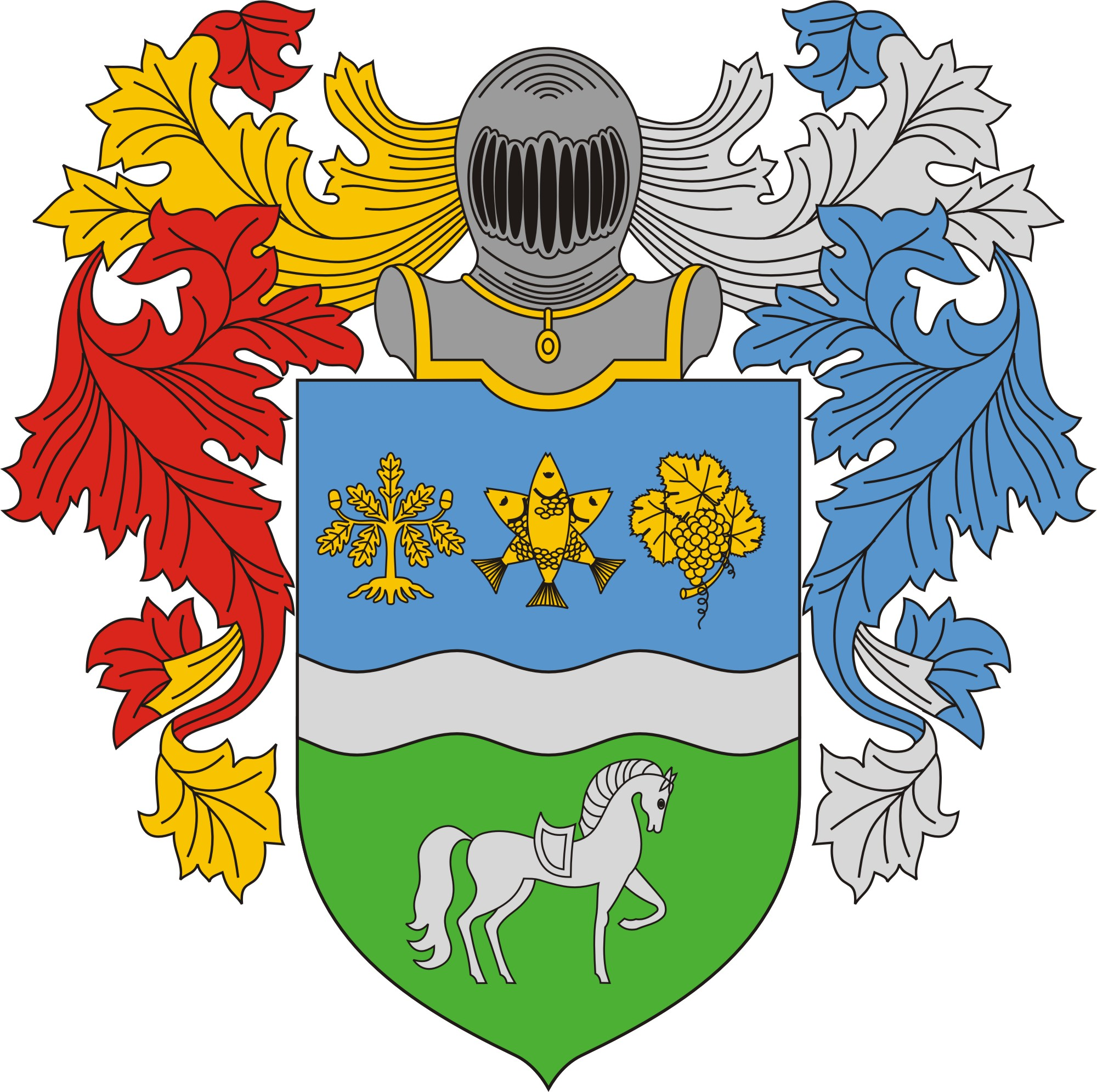 Lakitelek Coats of arms from Bács-Kiskun County